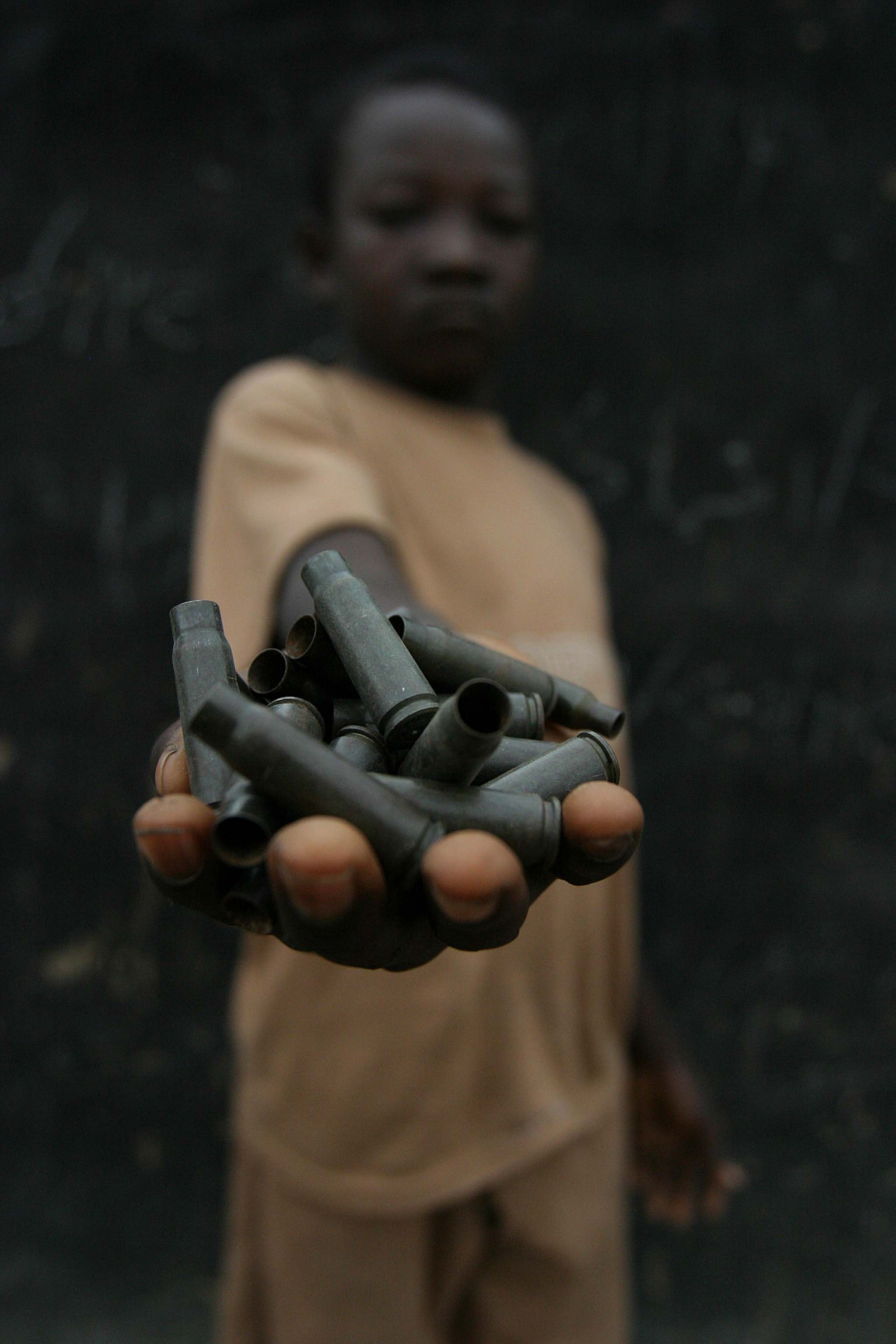 Child in a rebel camp in the north-eastern Central African Republic